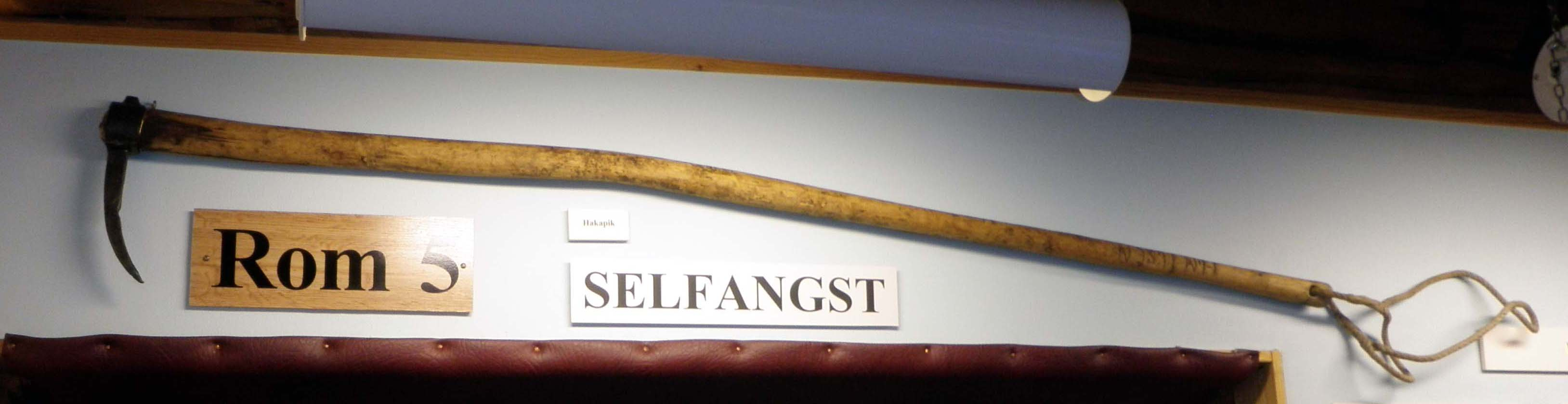 A hakapik hunting tool displayed as part of the seal hunting exhibition at the Polar Museum in Tromsø, Norway.